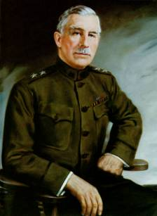 Leonard Wood (from